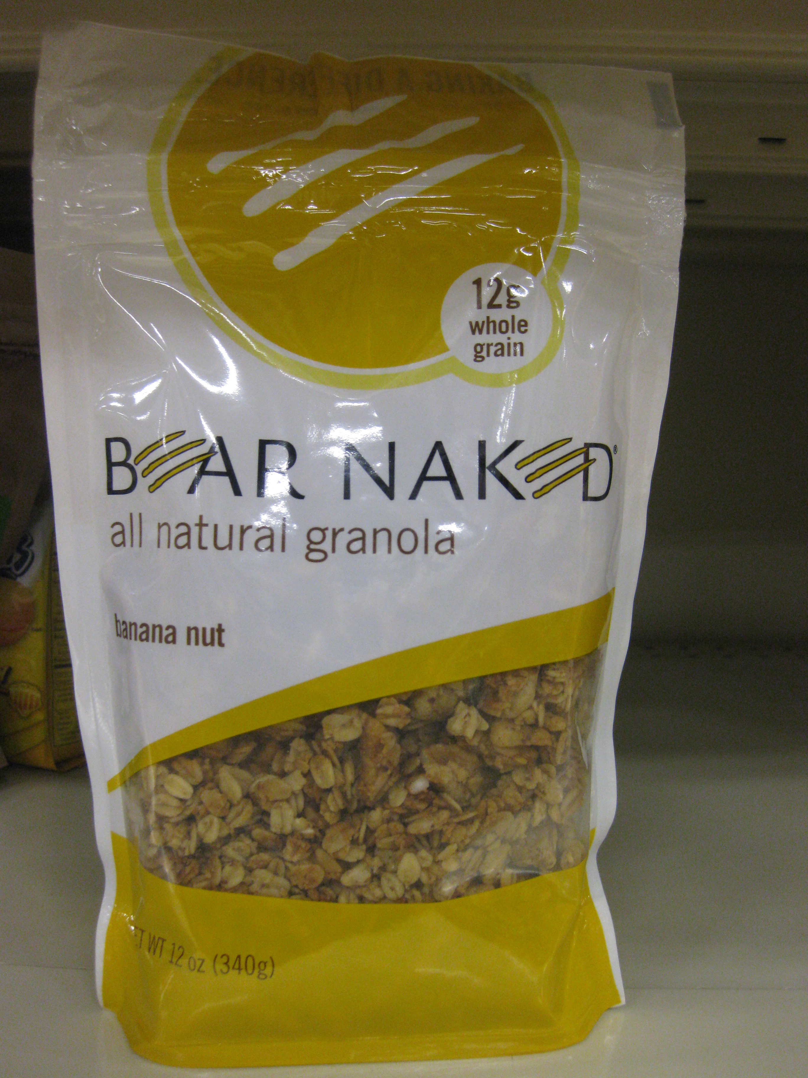 Bear Naked All-Natural Granola